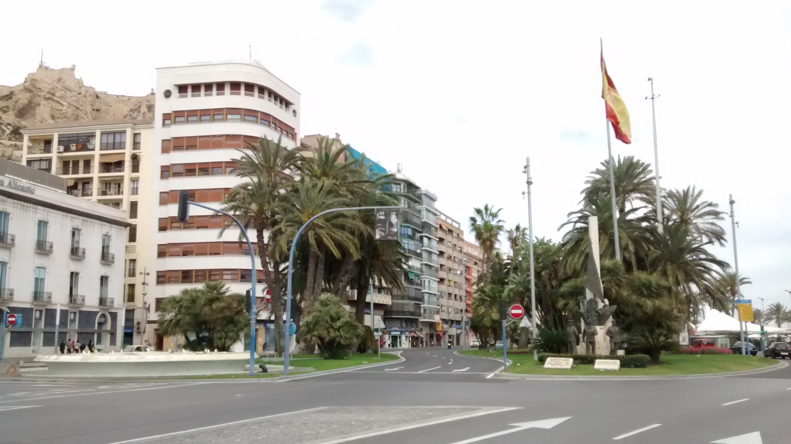 Plaza de la Piuerta del Mar, Alicante, Spain